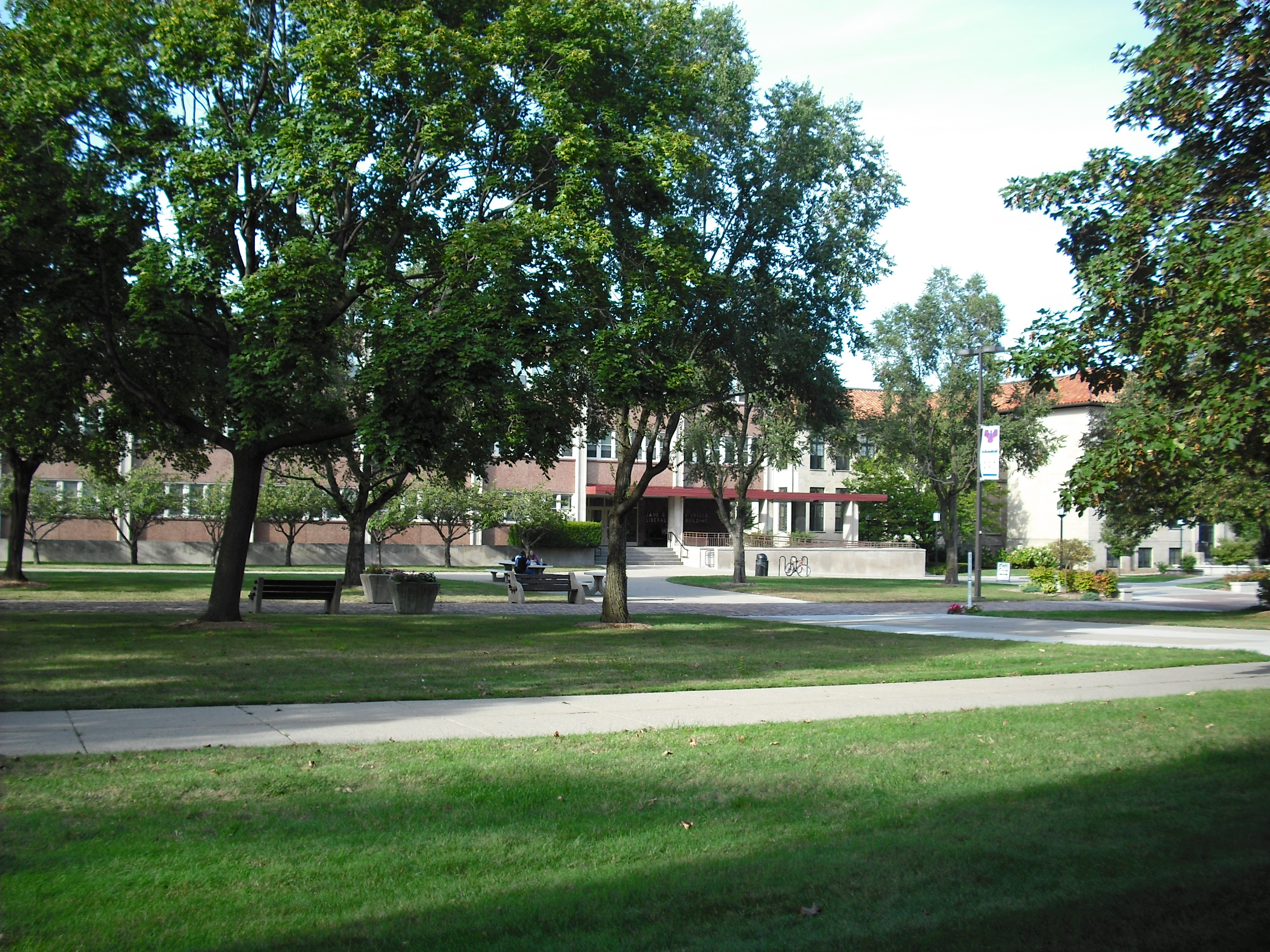 University of Detroit Mercy's McNichols Campus. This view is from the north side of the McNichols Campus Library, looking northeast across Sacred Heart Square toward the Jane & Walter O. Briggs Building (on left) and the Commerce & Finance Building (at right).